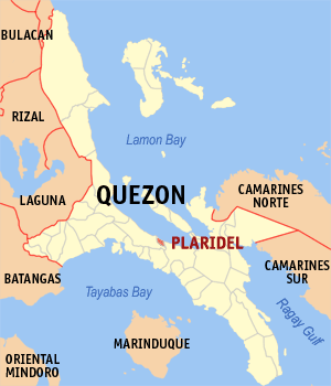 Map of Quezon showing the location of Plaridel